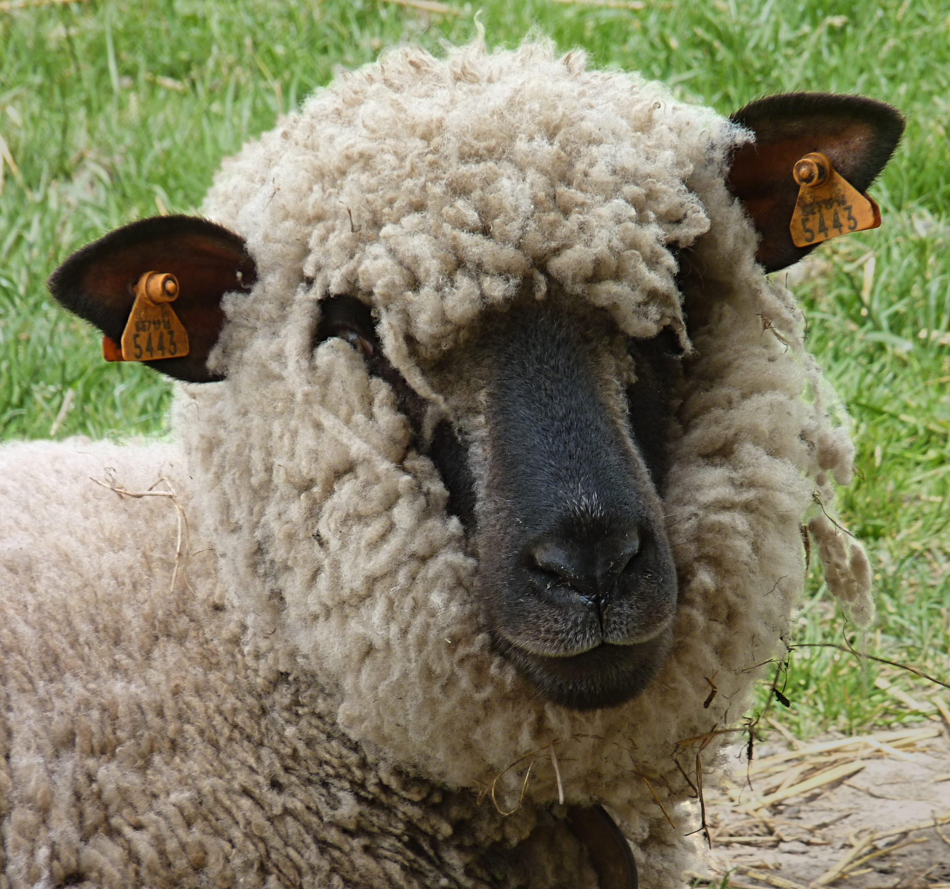 Hampshire Down sheep head, picture taken in Mouscron, Belgium